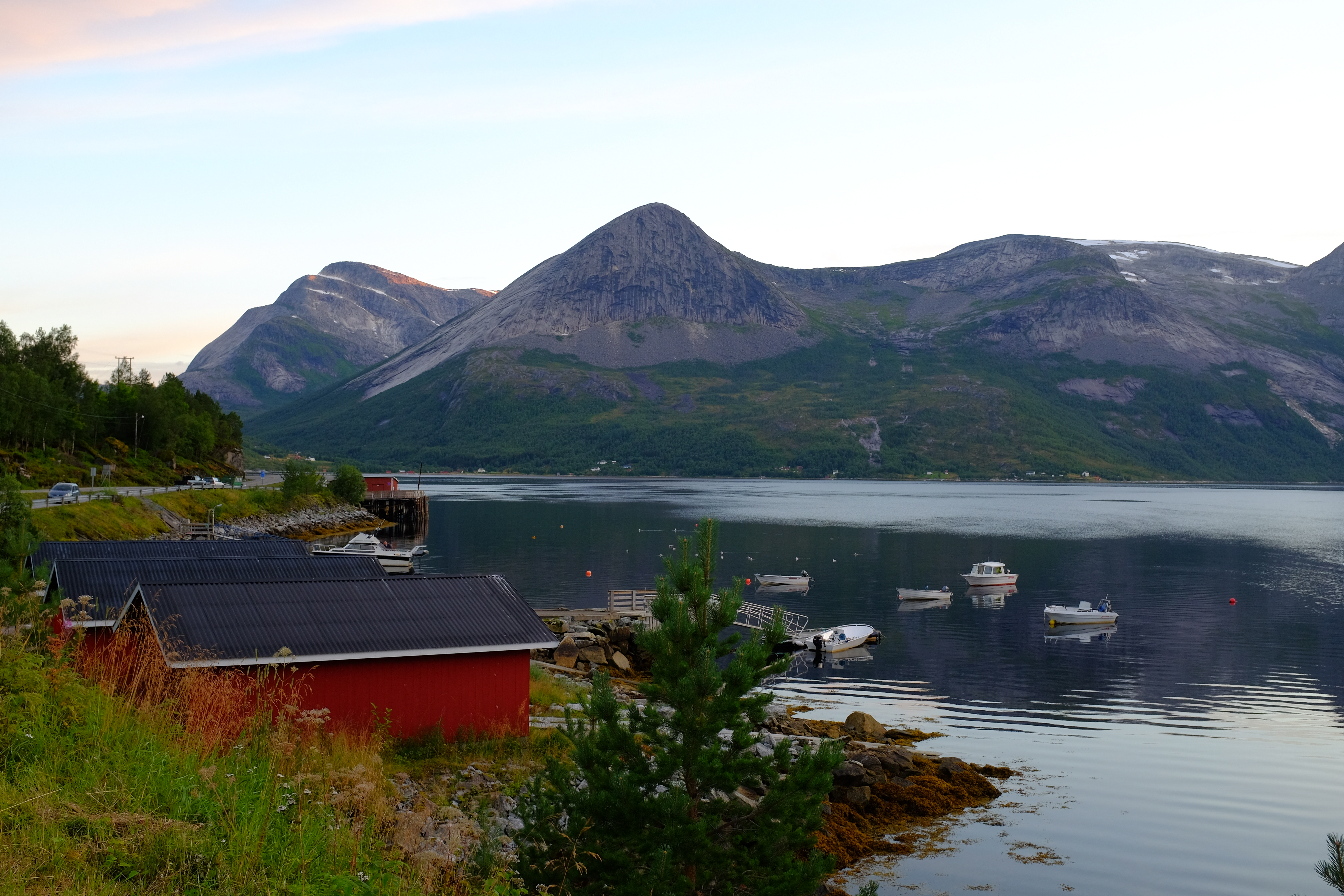 Mørsvikbotn is a village north of Sørfold in Nordland.